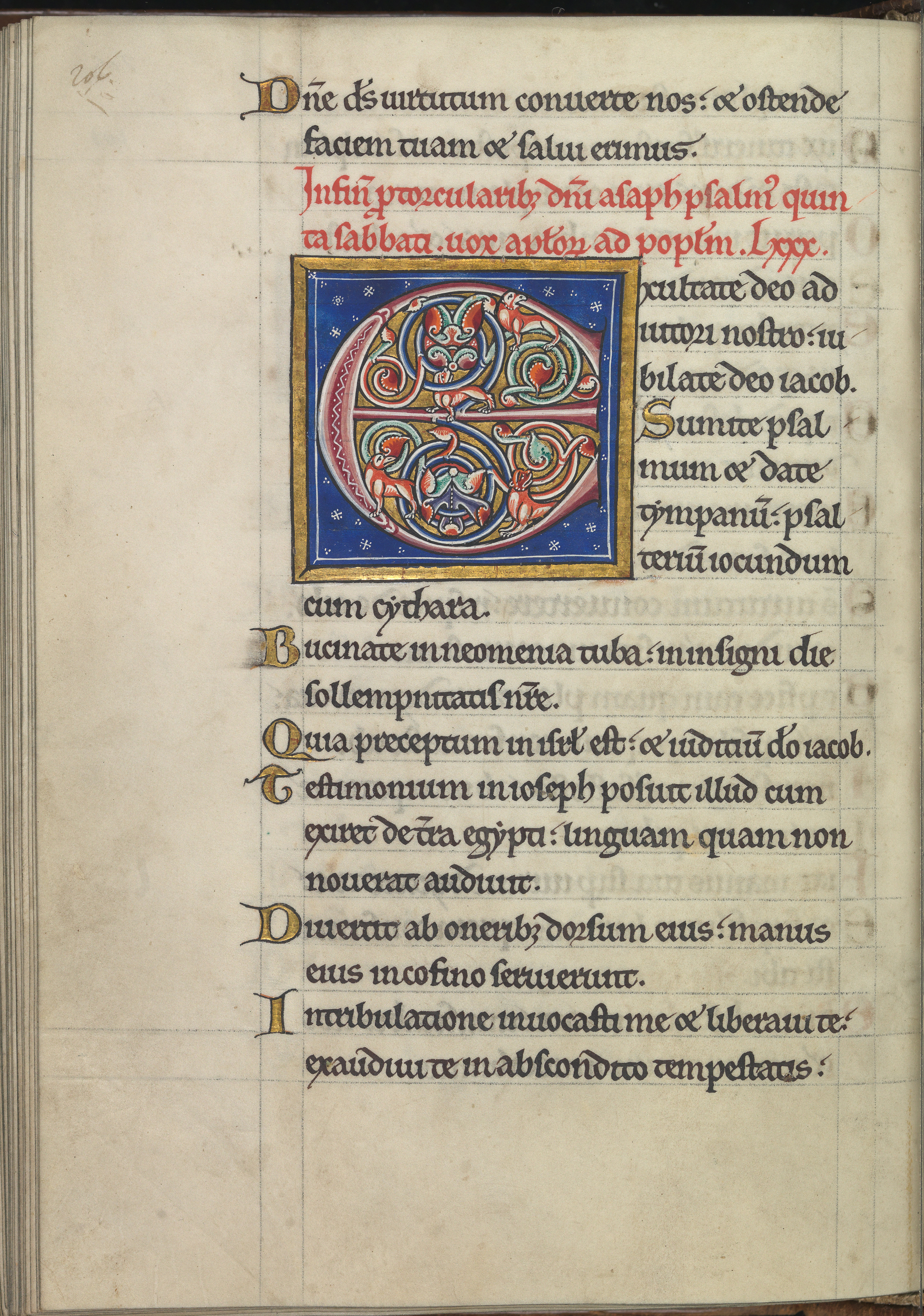 Folium 103v from the Psalter of Eleanor of Aquitaine (ca. 1185) from the collection of the National Library of the Netherlands. The illumination shows Psalm 80, Exultate deo adiutori nostro, iubilate deo Jacob.